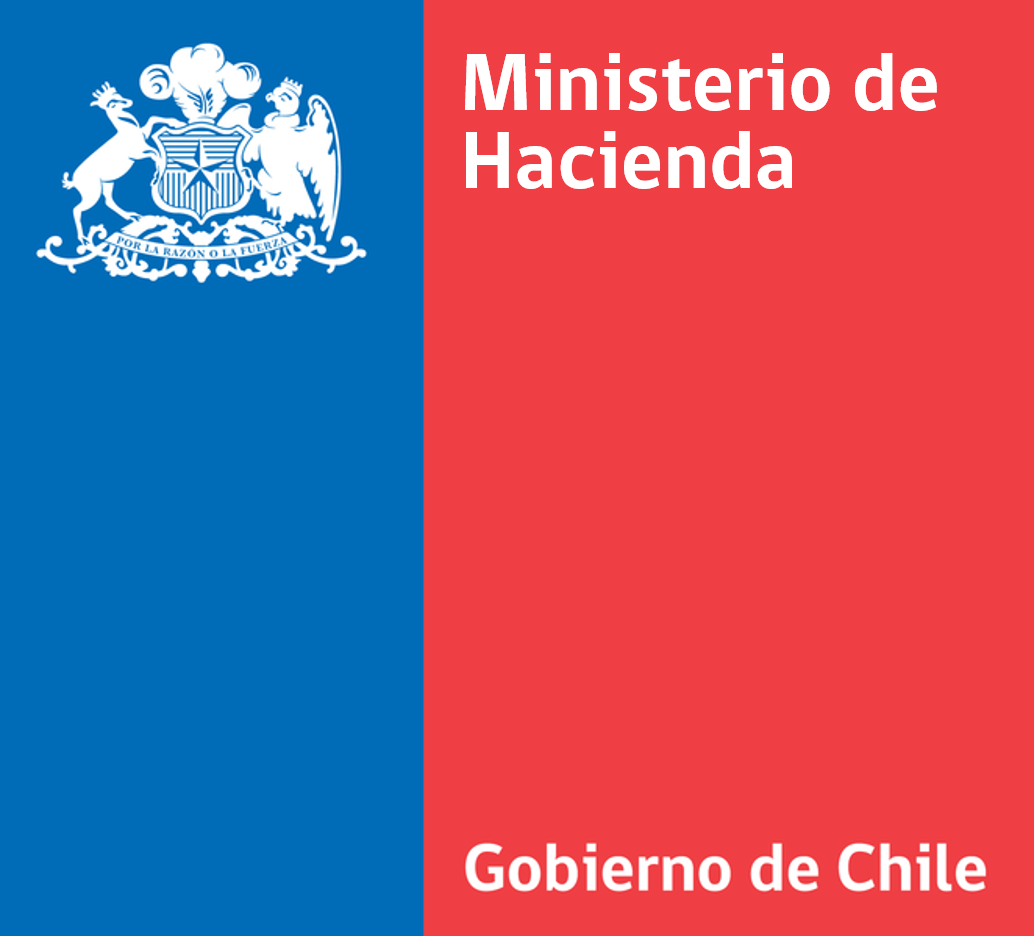 Logo of the Ministry of Finance.